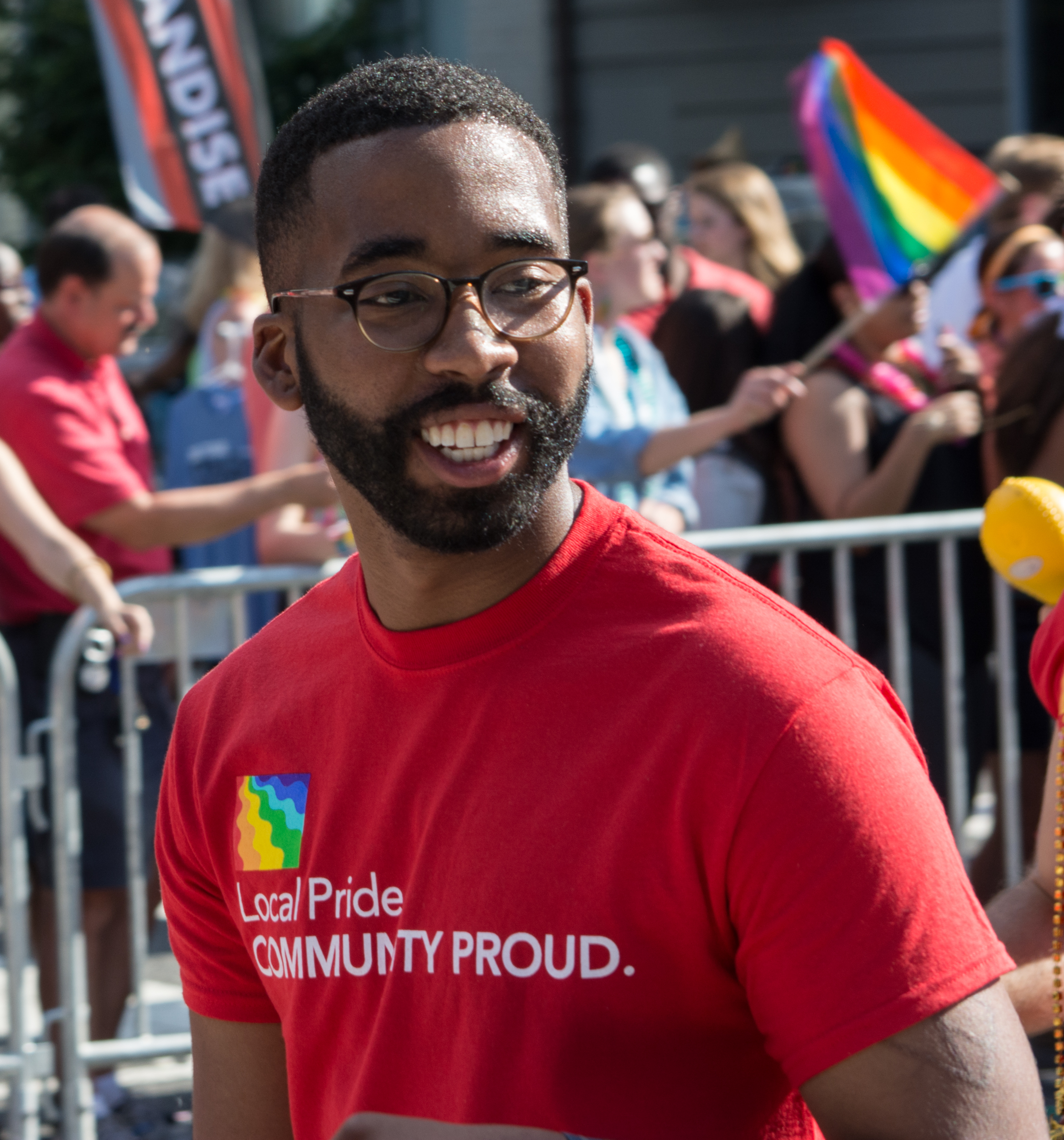 D.C. Gay Pride 2014